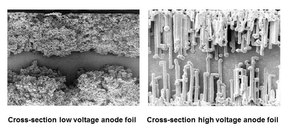 Two cross-sections of a low and a high voltage anode foil for aluminum electrolytic capacitors